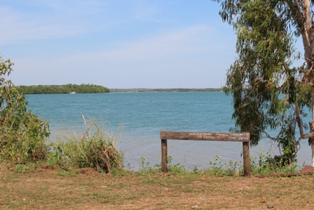 Aurukun, Cape York